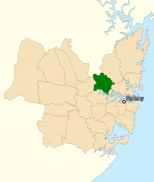 This image incorporates data that is: © Commonwealth of Australia (Australian Electoral Commission) 2009 Division of Bennelong 2010